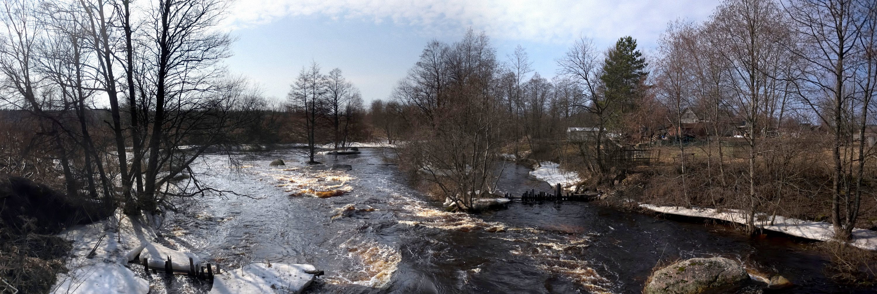 River Rokkalanjoki in Kaijala / Tokarevo April 2016